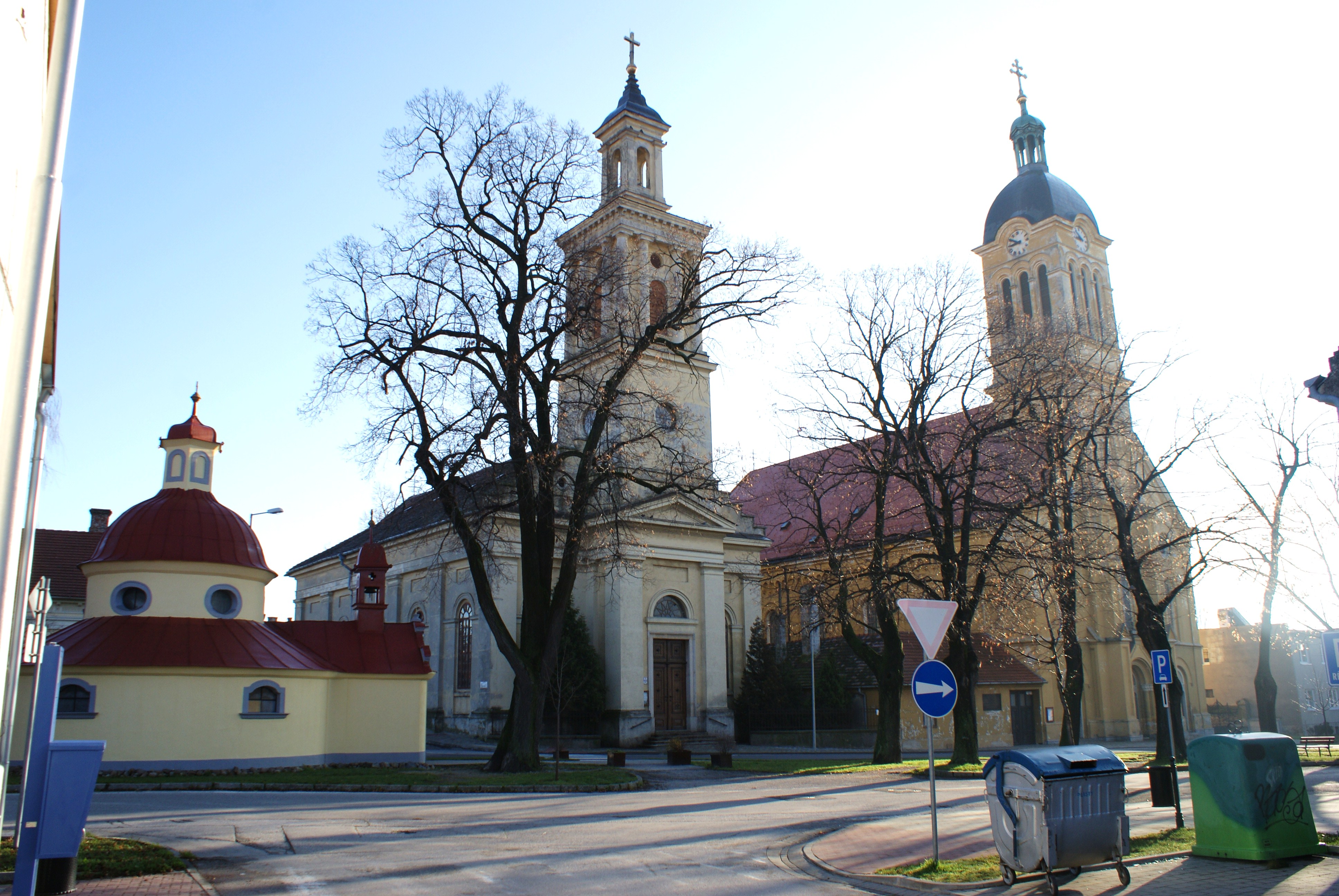 Modra, a town in Pezinok district, Slovakia, German and Slovak Lutheran Evangelical church.